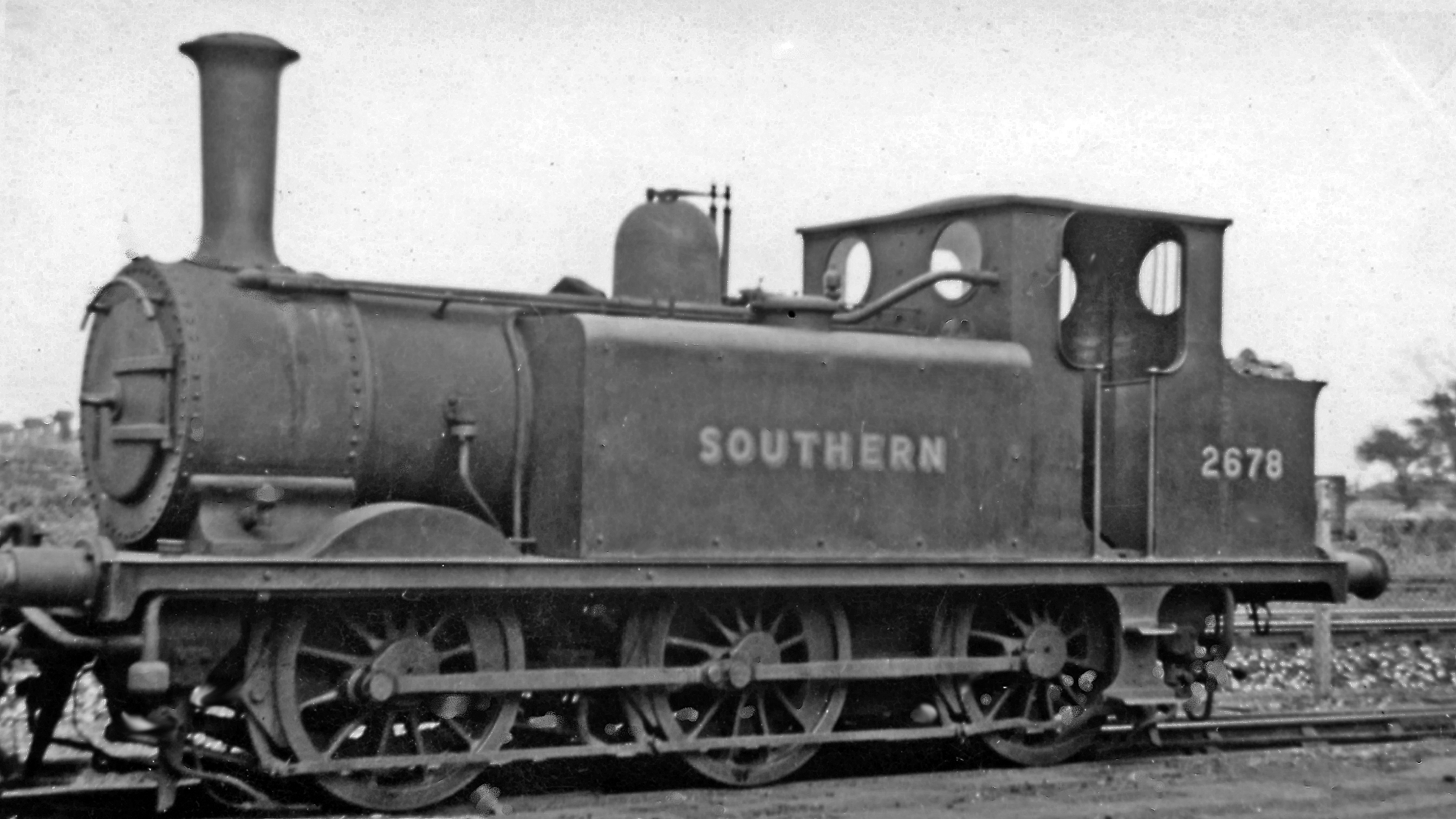 Ex-LB&SCR A1X 0-6-0T at Ashford Locomotive Depot. No. 2678 was built 7/1880 as Stroudley class A1 No. 678 'Knowle', was rebuilt as an A1X 11/1911; it ran on the SR it as B678, was sent in 1925 to the Isle of Wight as W4, then W14 'Bembridge', returned in 1937 and loaned to the Kent & East Sussex line until 1954, finally ran as BR 32678 on the SR until withdrawn 10/63.